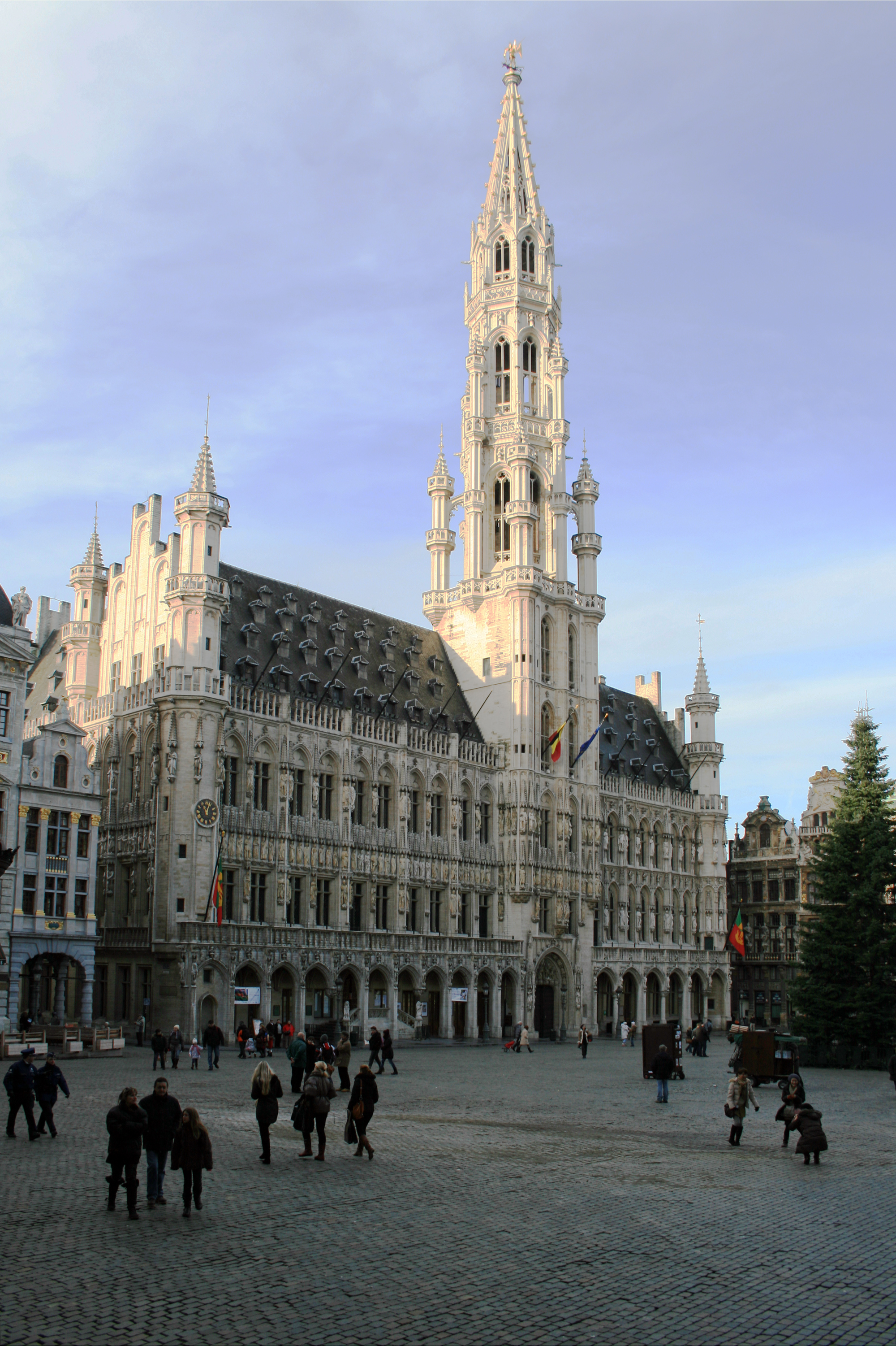 Brussels town hall on Grand Place, Belgium.